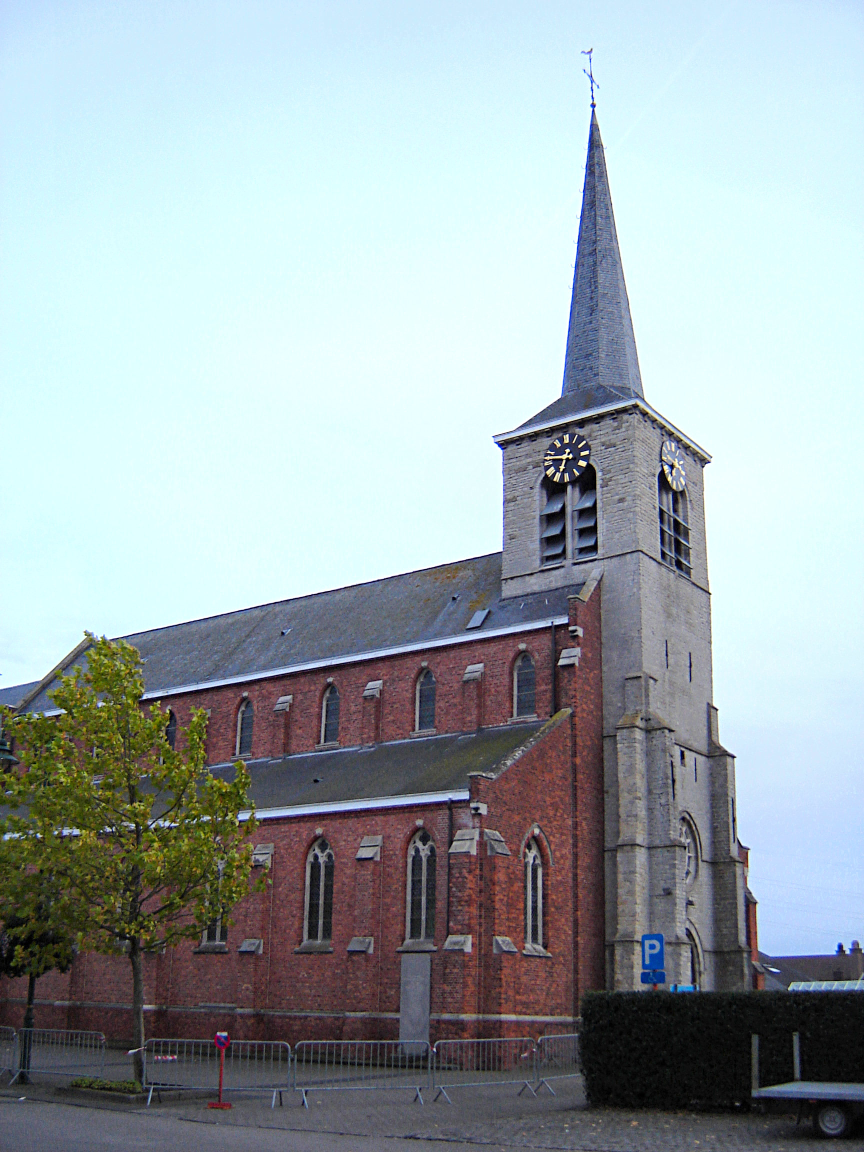 Church of Saint Anne in Sint-Anna. Sint-Anna, Hamme, East Flanders, Belgium